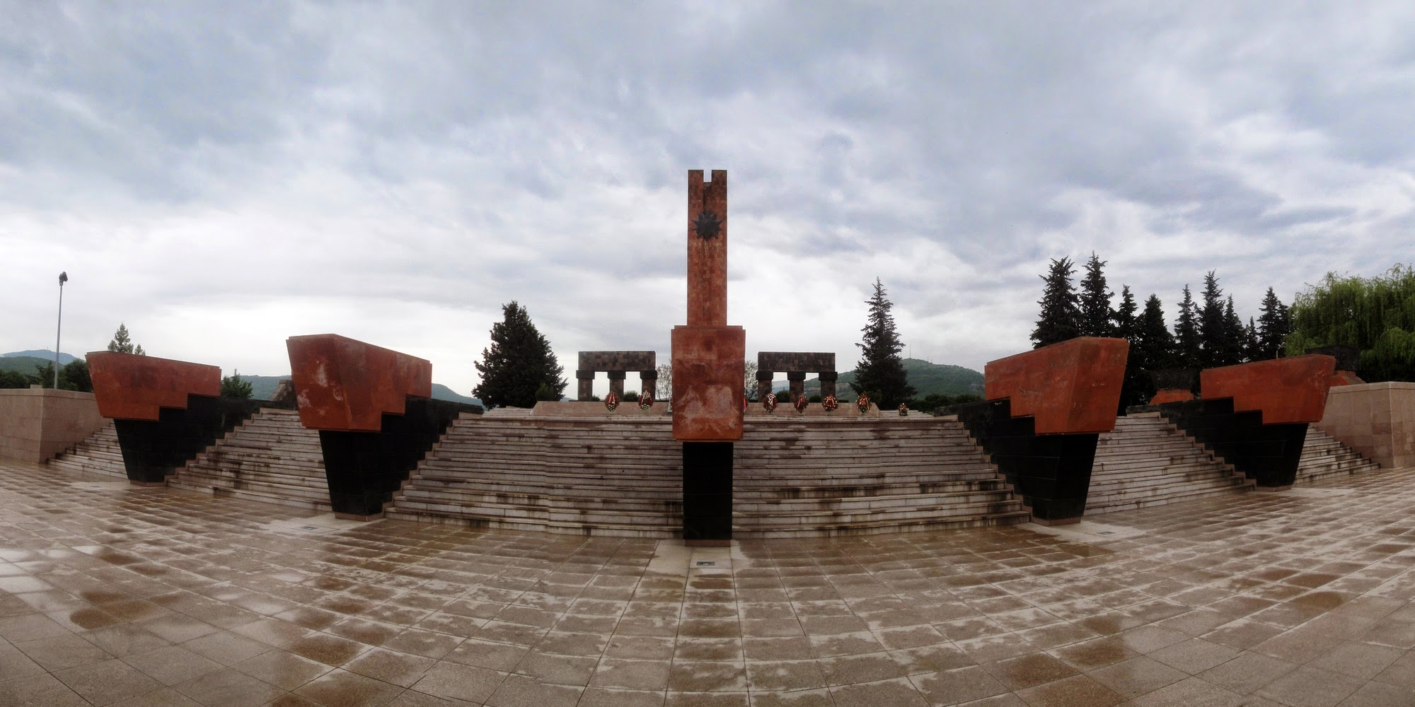 Stepanakert, Monument to fallen in WWII, 2014.05.11